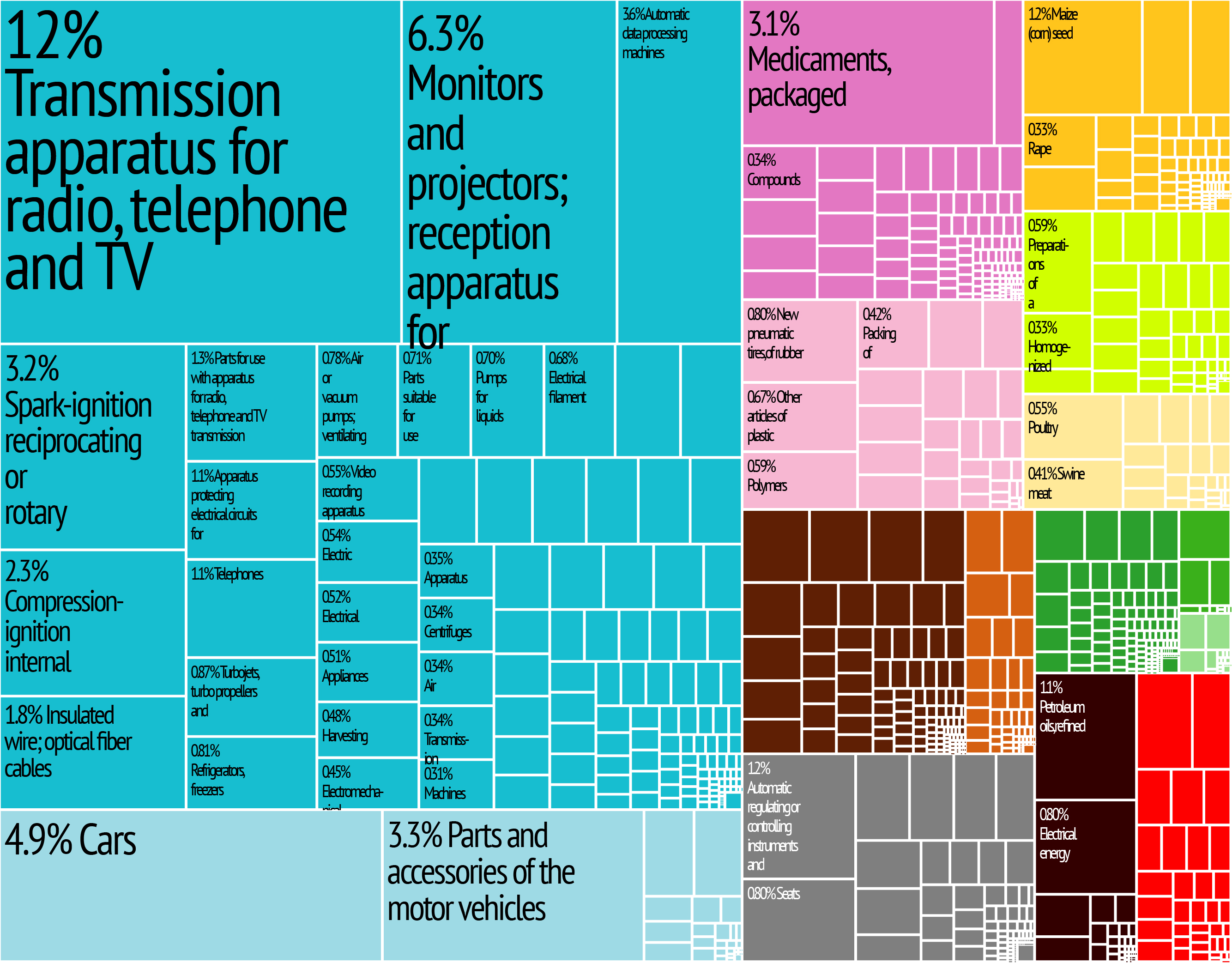 Hungary Export Treemap from MIT Harvard Economic Complexity Observatory